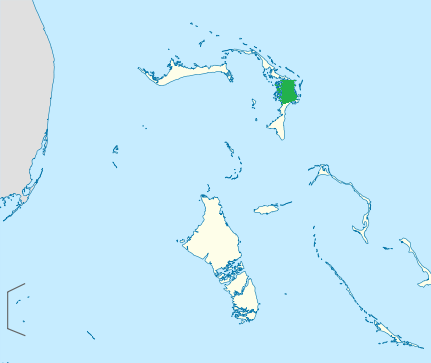 Location map of the Bahamas Equirectangular projection, N/S stretching 105 %. Geographic limits of the map: * N: 27.5° N * S: 20.7° N * W: 80.7° W * E: 70.8° W